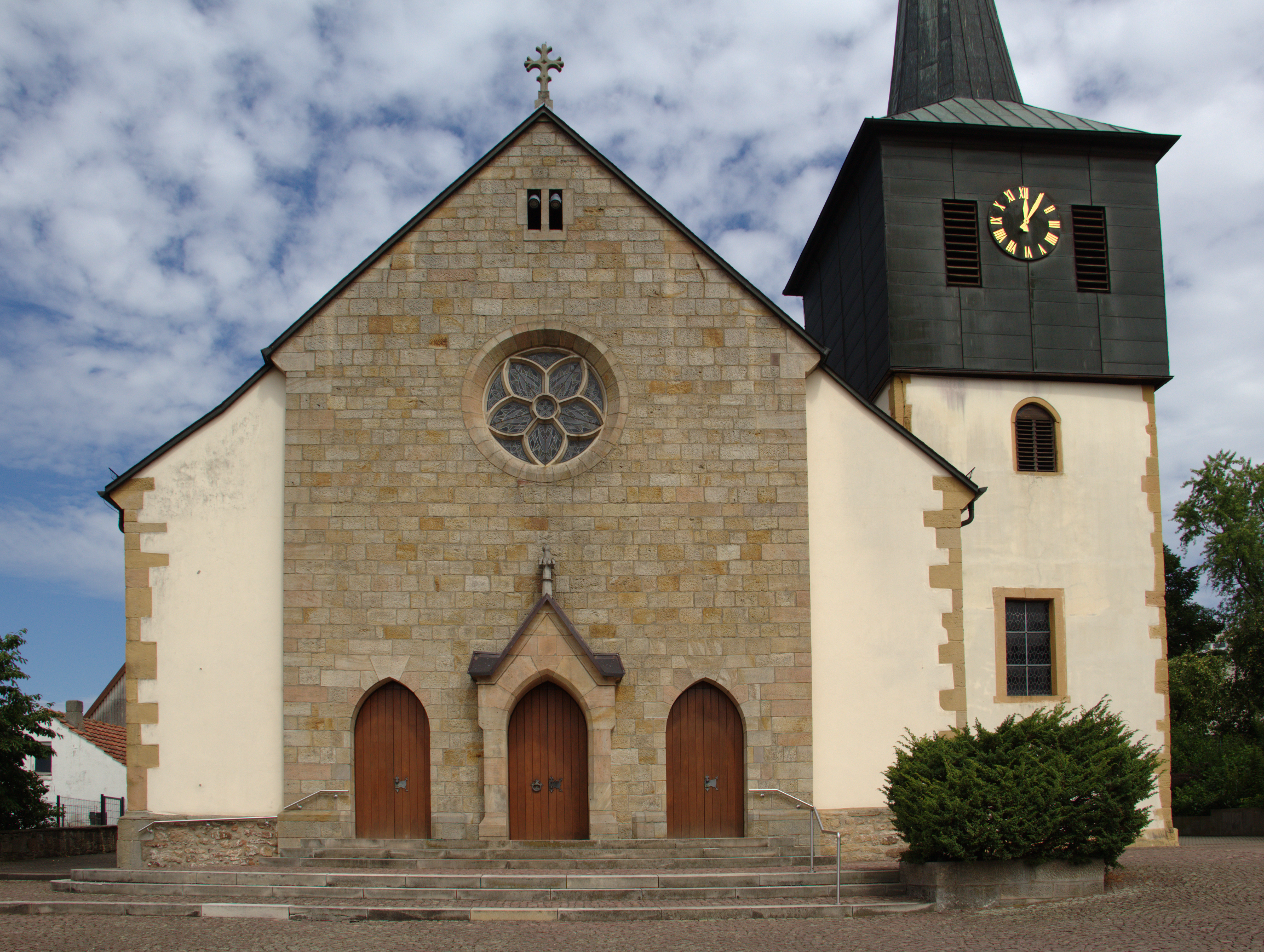 Saints Cosmas and Damian church in Hattenhof, Neuhof, Hesse, Germany